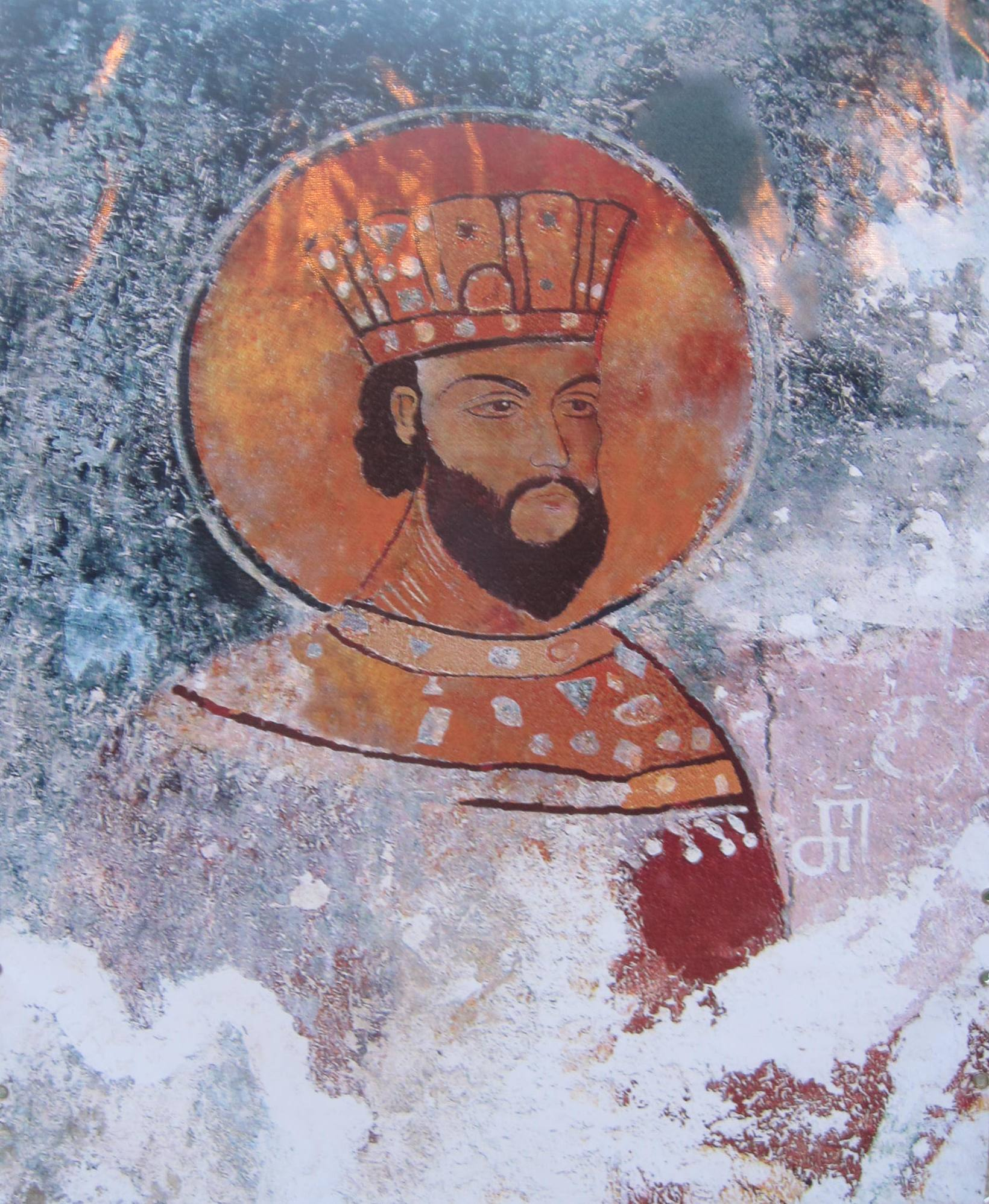 King David VI (IV) of Georgia